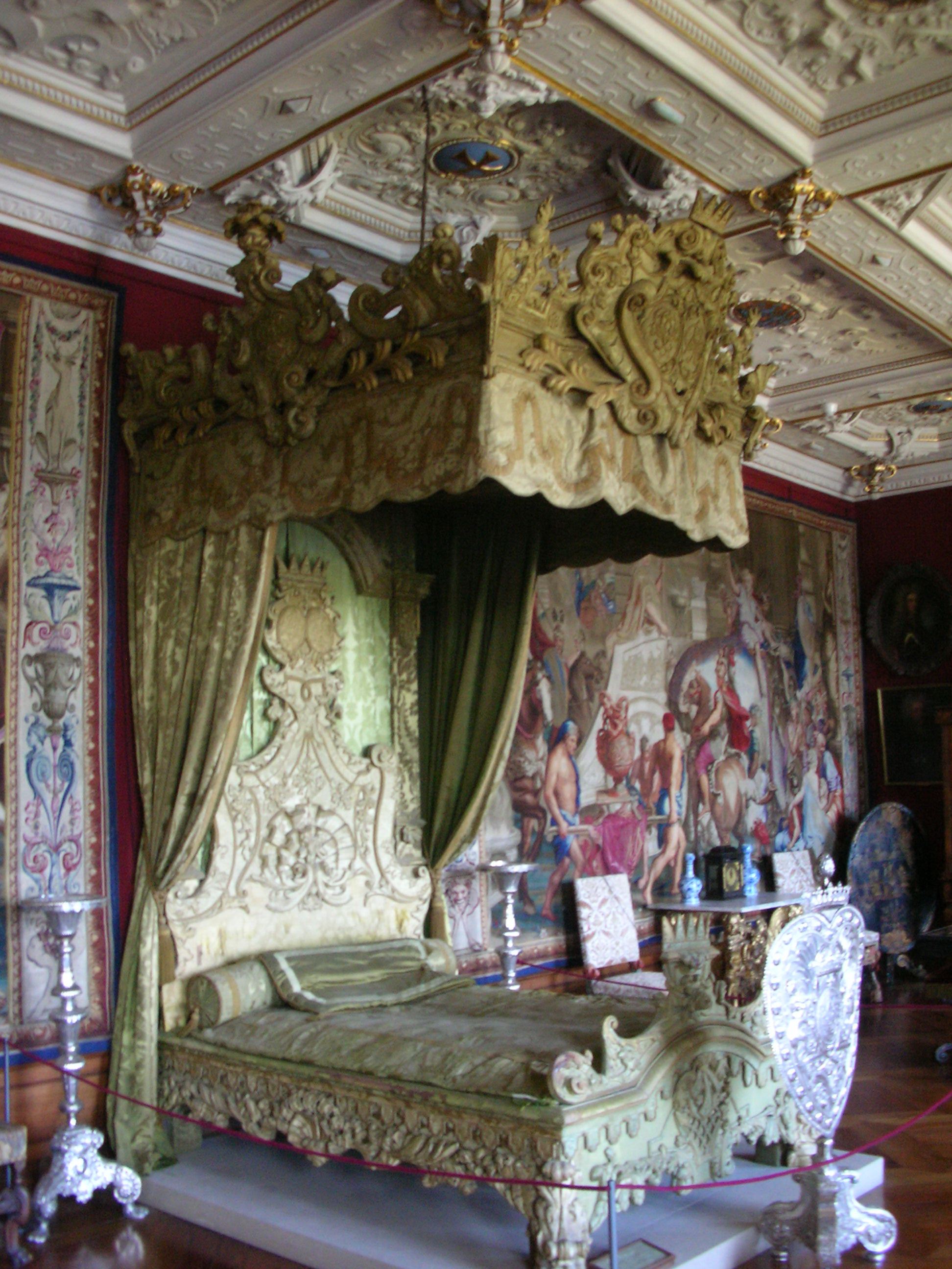 A bedroom and its bed in Frederiksborg castle in Hillerød (Denmark)